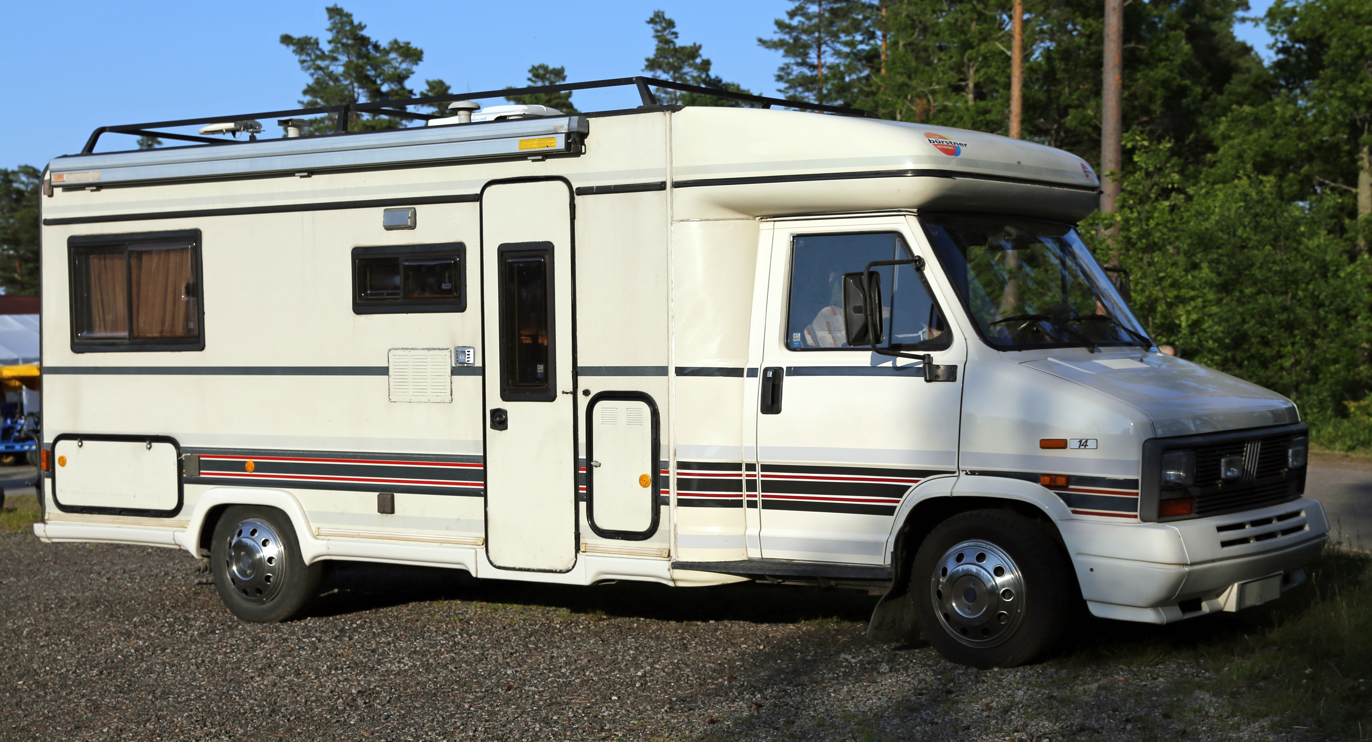 1989 Bürstner RV based on a first generation Fiat Ducato 14 Turbo D. 68kW is not a lot...